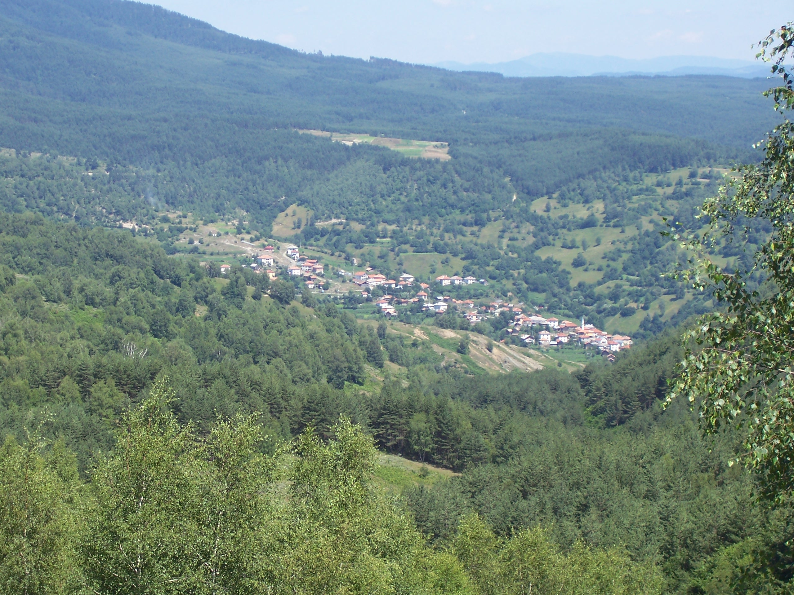 The village of Osina, Bulgaria.